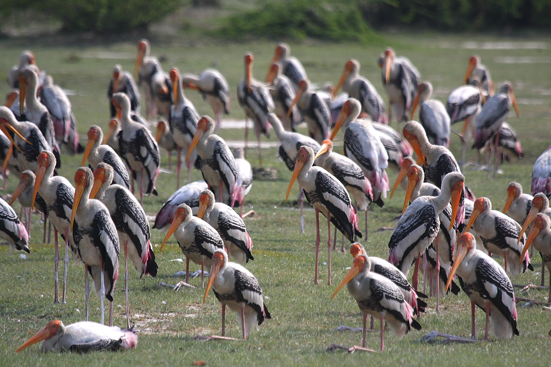 A large flock of painted storks rest in a fallow field in Mainpuri district